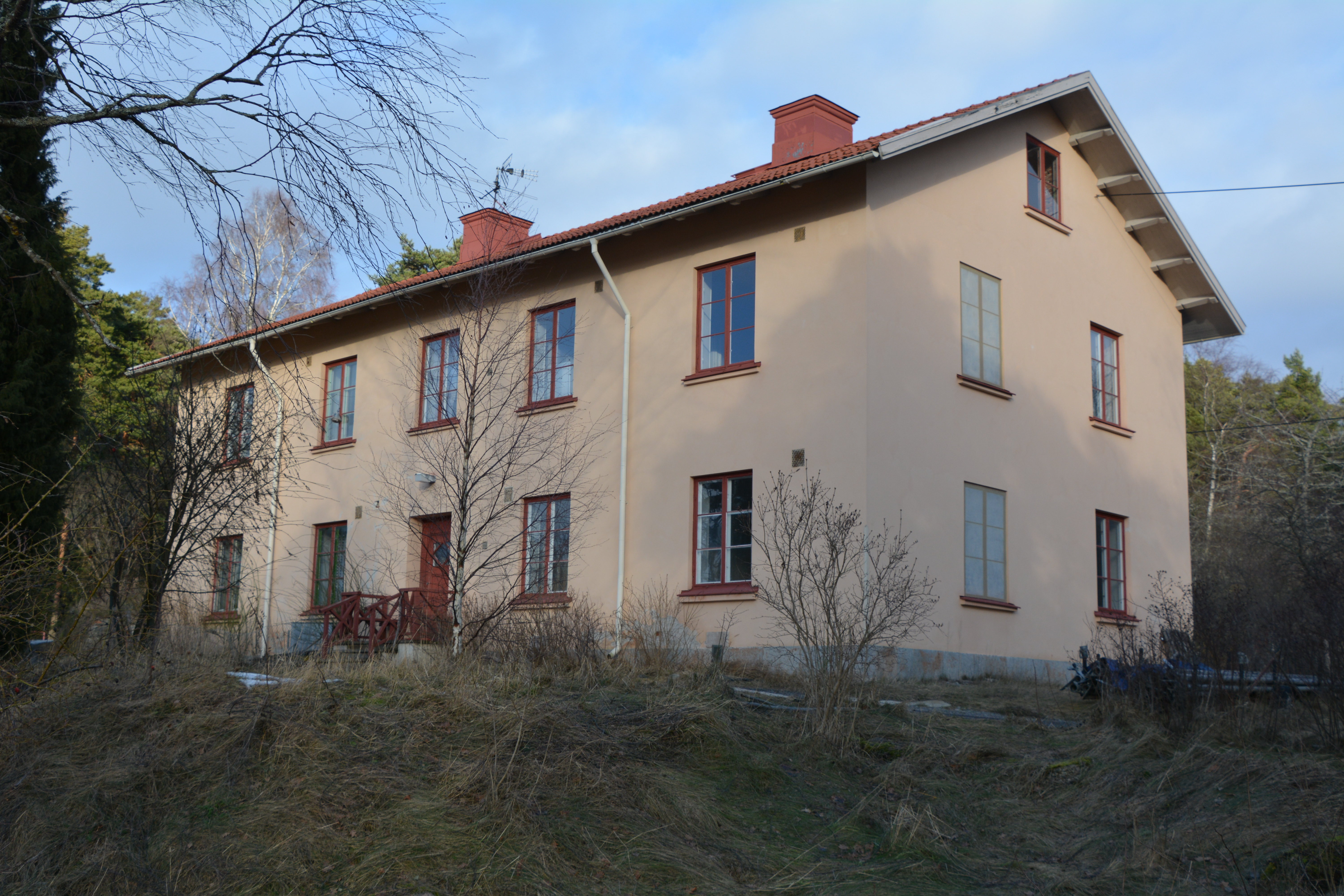 Kyrkhamn